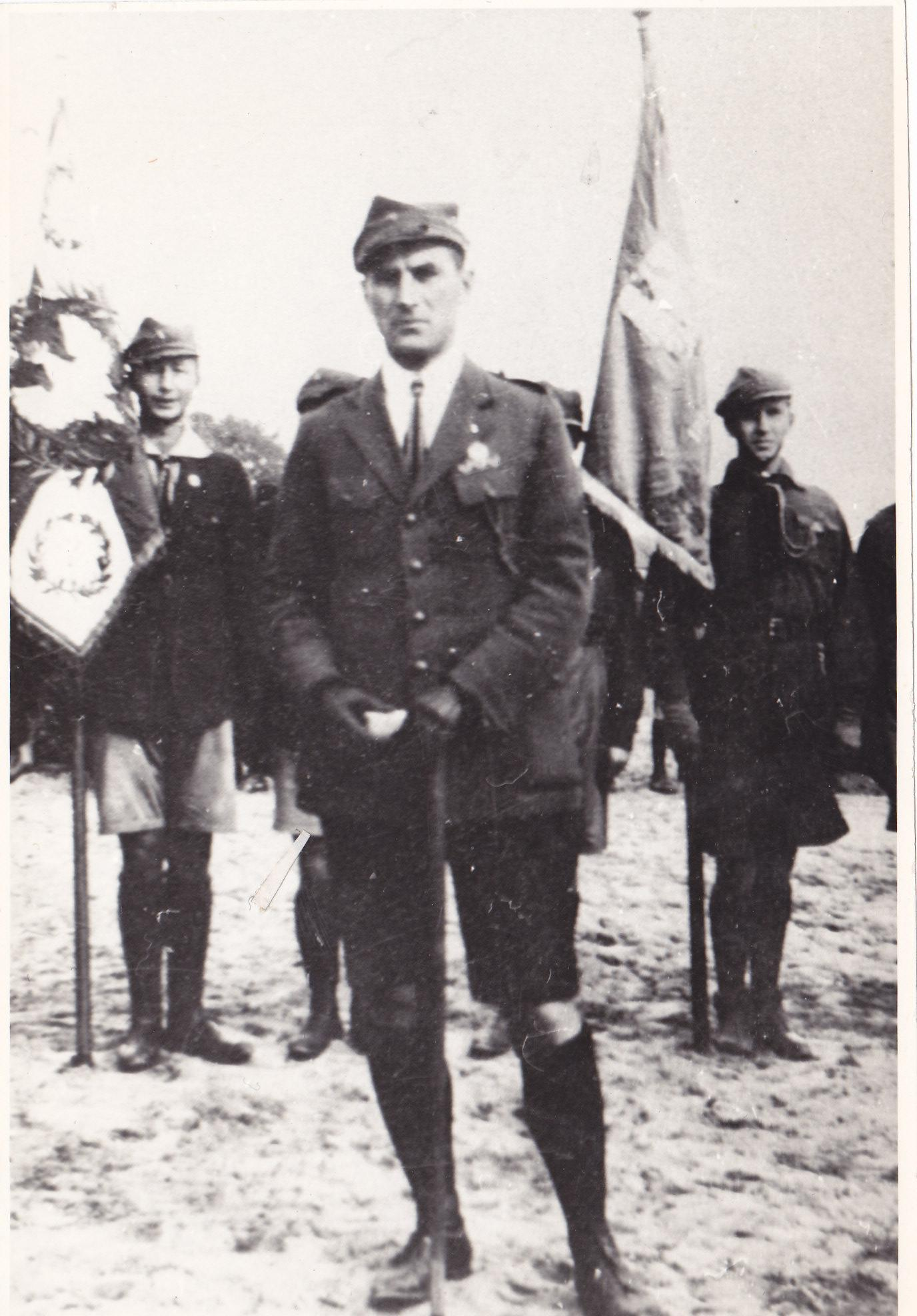 Tomasz Piskorski - head of Polsih scouting in 1936